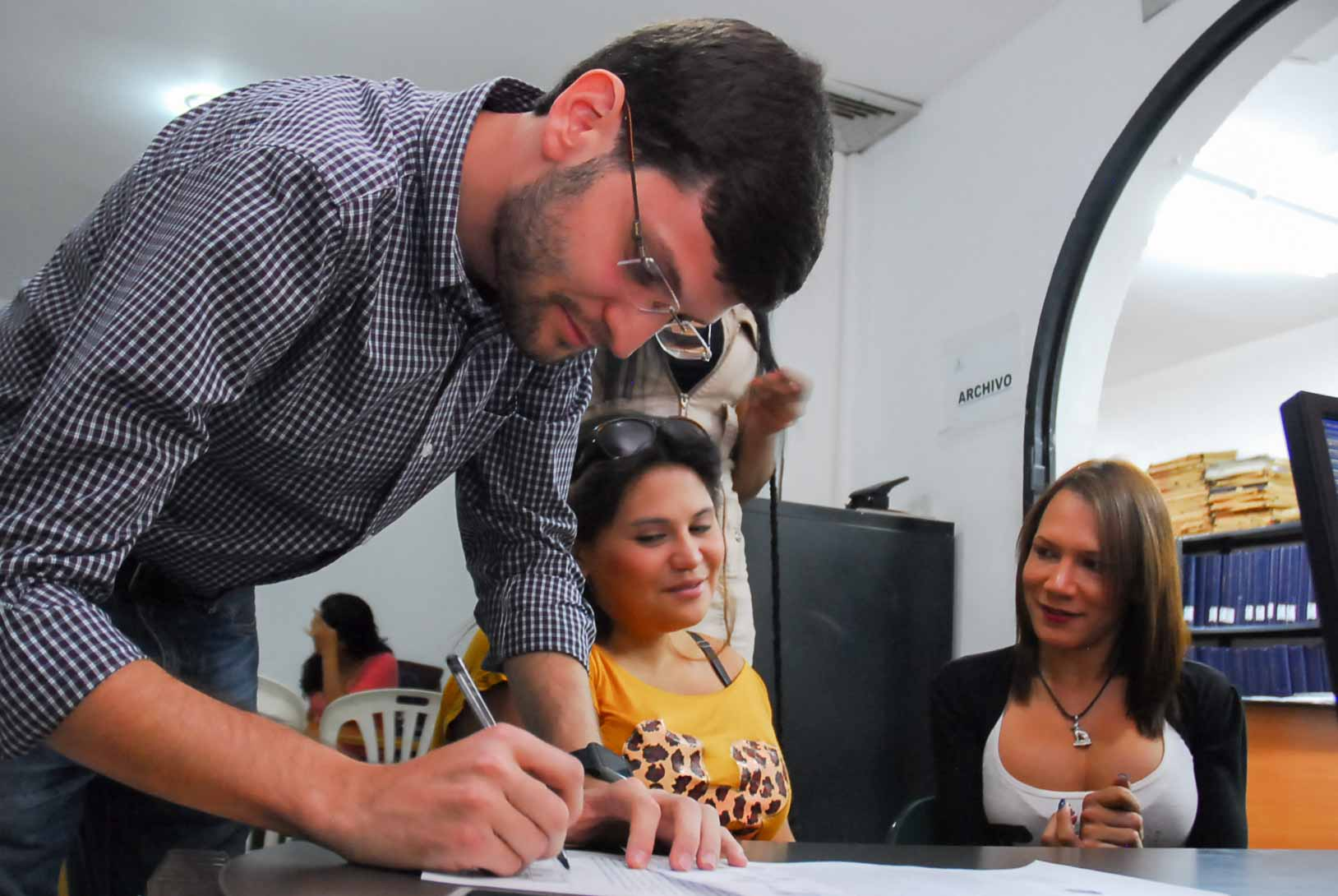 Concejal Diego Scharifker apoyó el primer matrimonio entre una chica trans y una chica lesbiana en el municipio Chacao